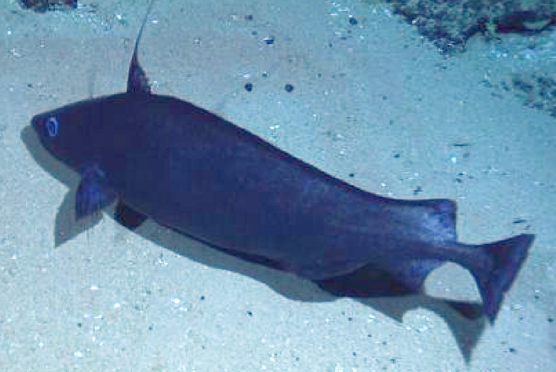 Blue antimora (Antimora rostratus)